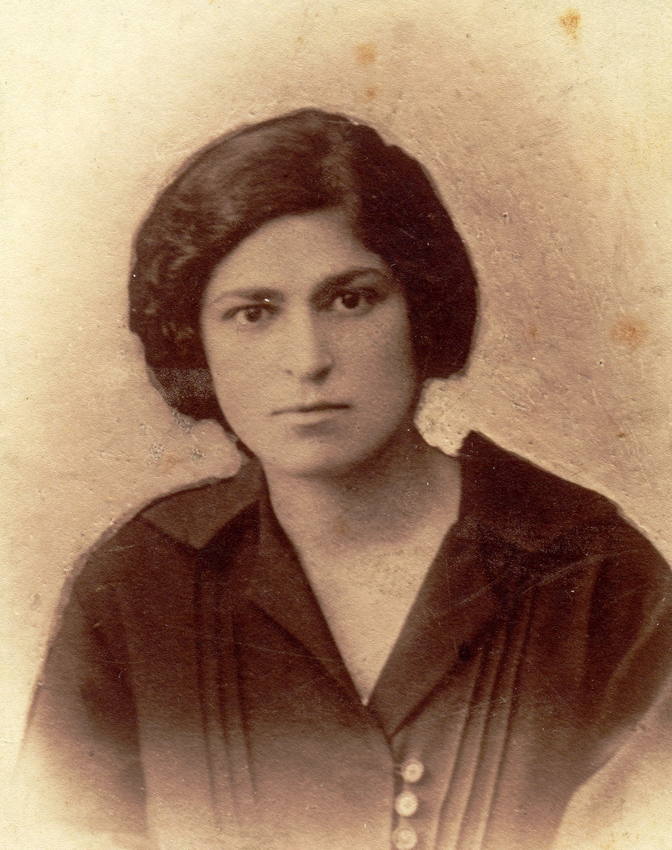 Edvard Chubaryan 75th Birthday, 05 May 2011 05, No. 10